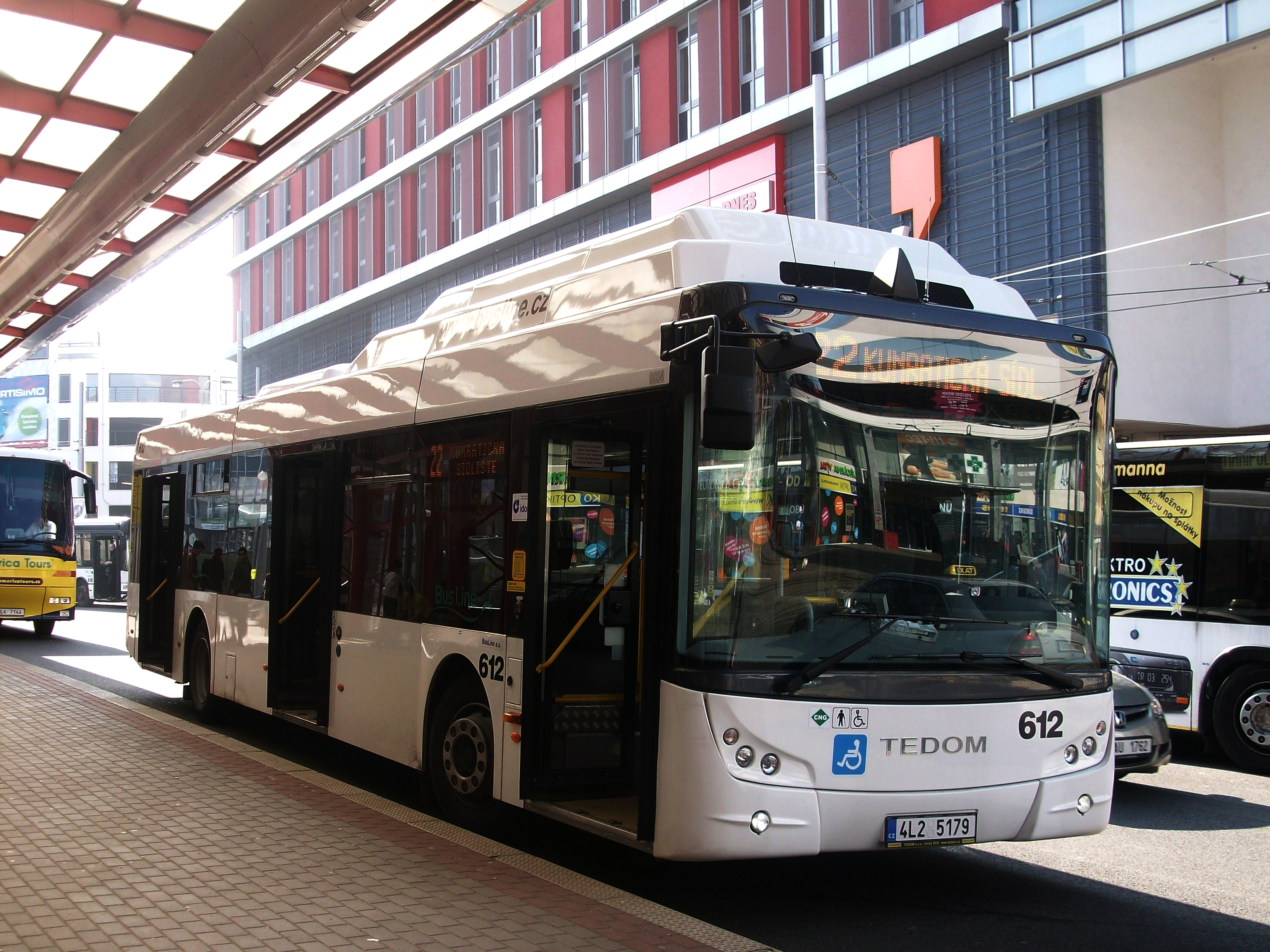 Tedom bus, Liberec